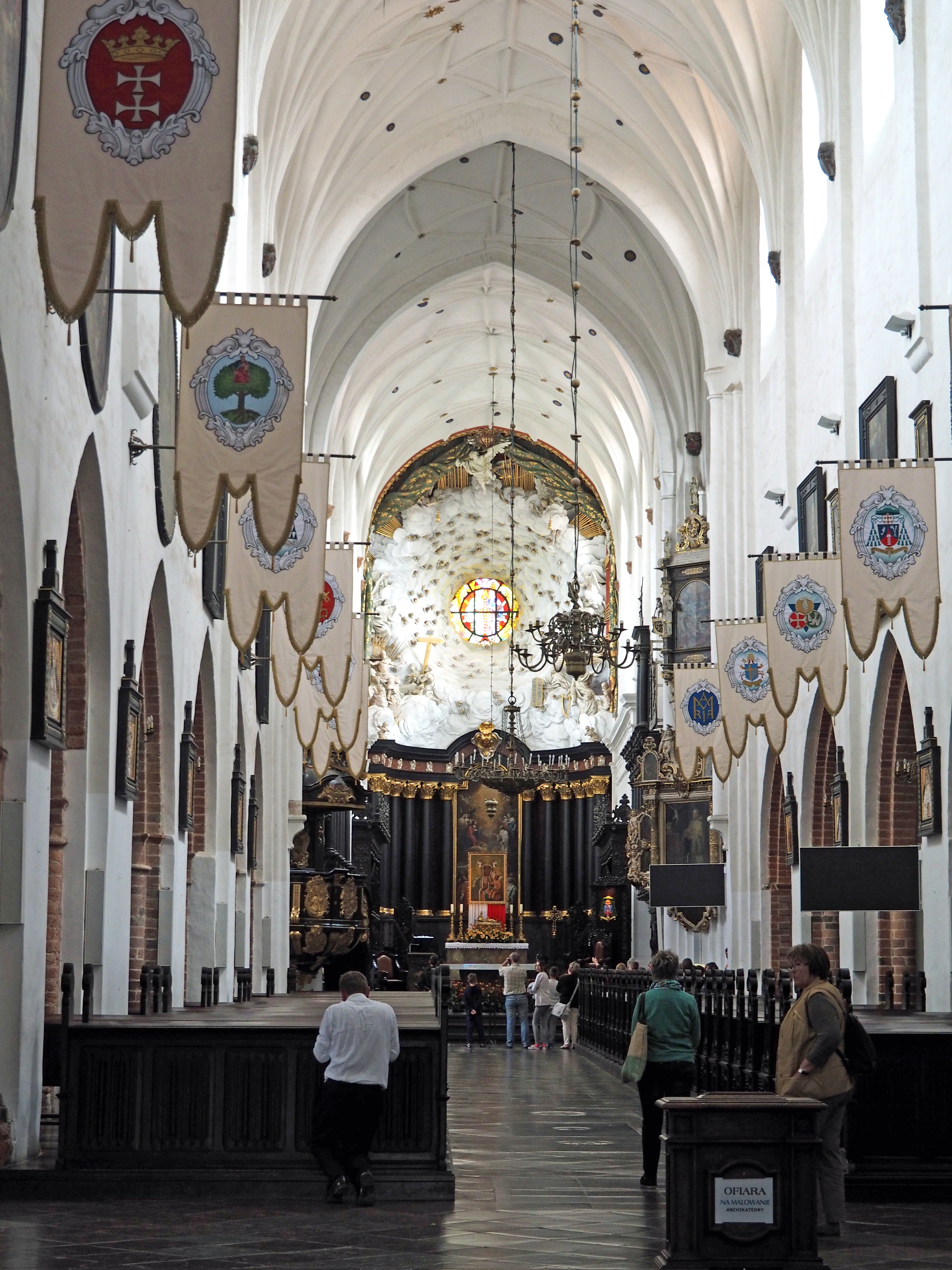 Nave in the cathedral of Oliwa